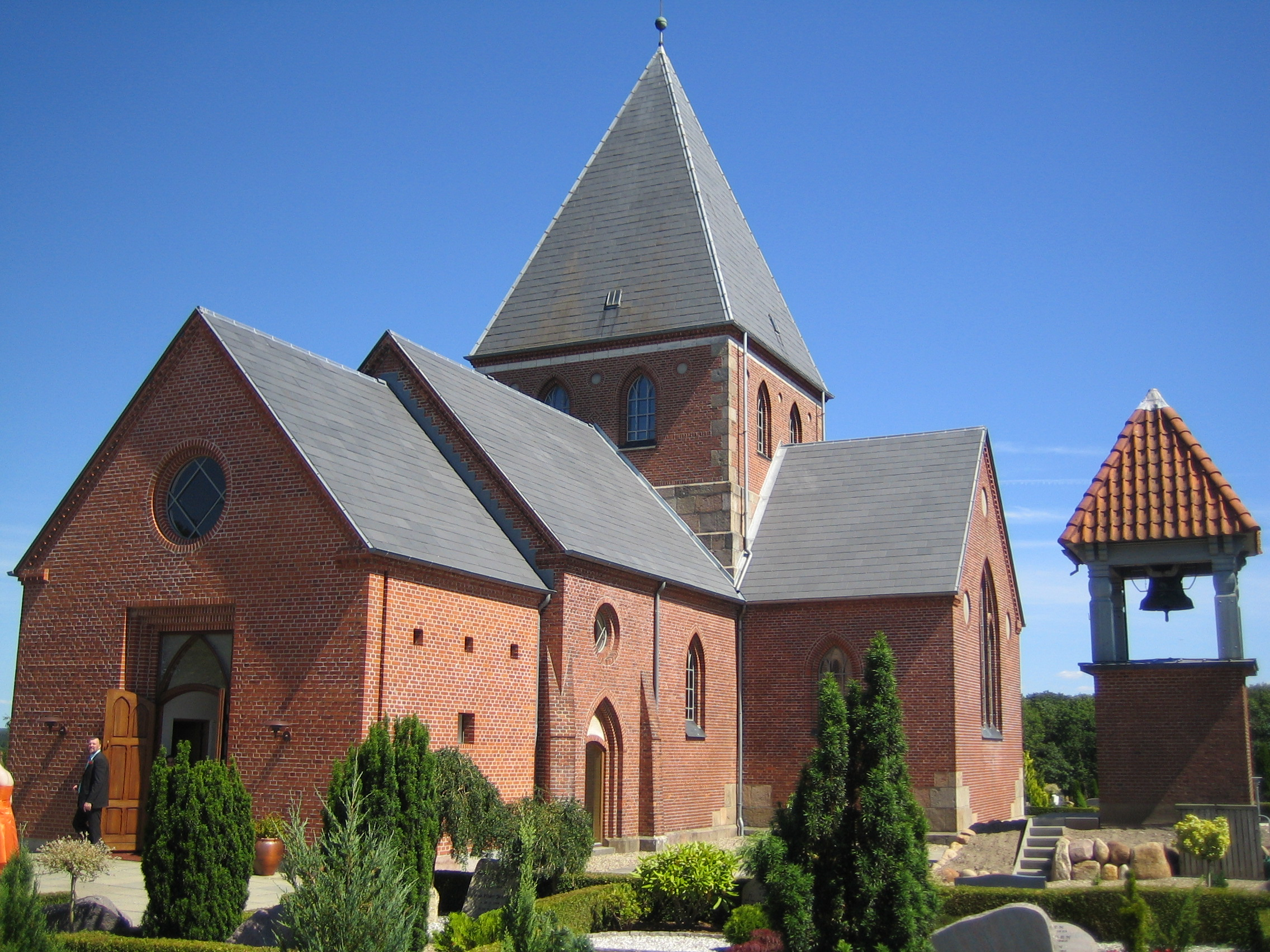 The danish church, Bording Kirke in Vestjylland east of Herning.